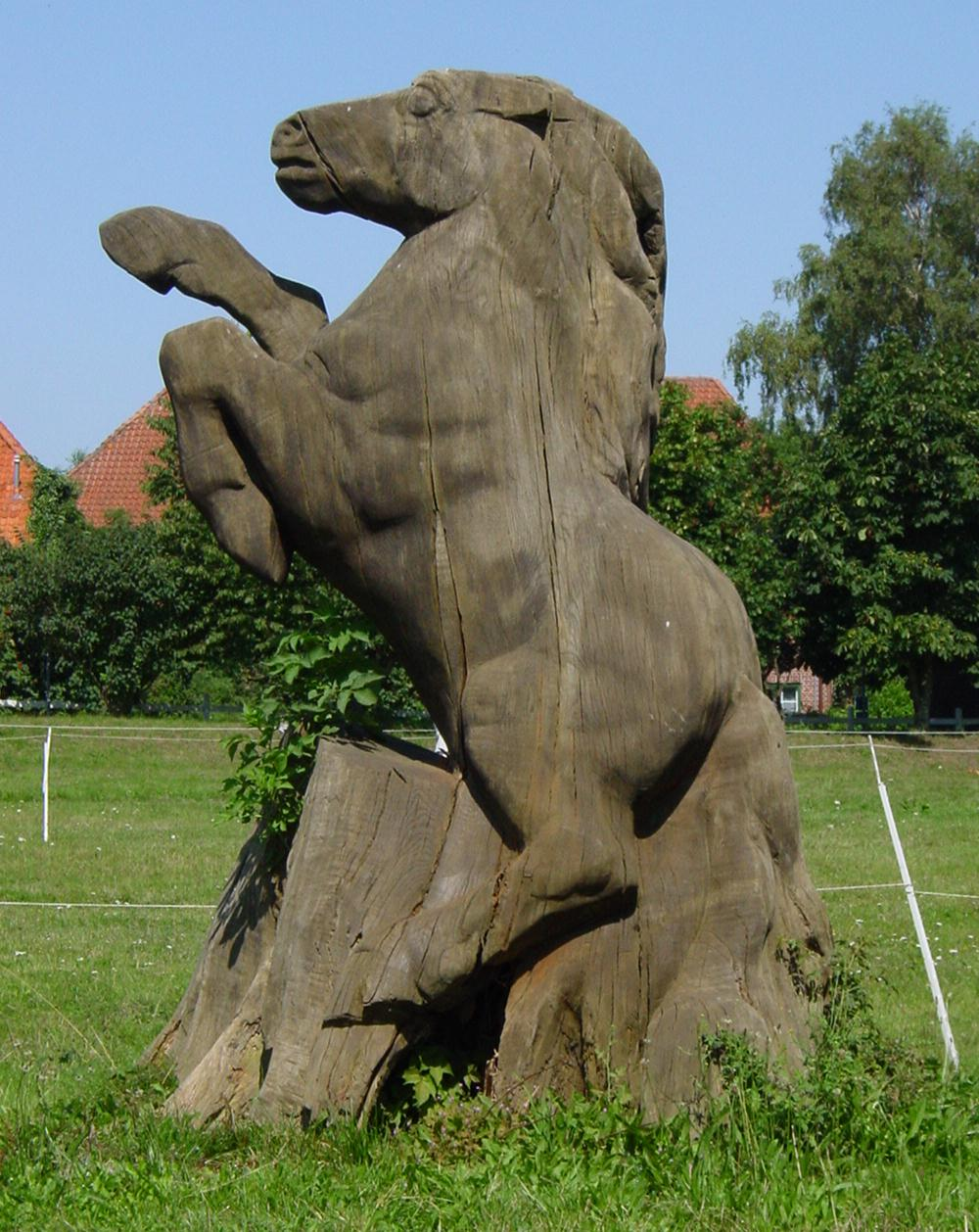 Icelandic horse statue